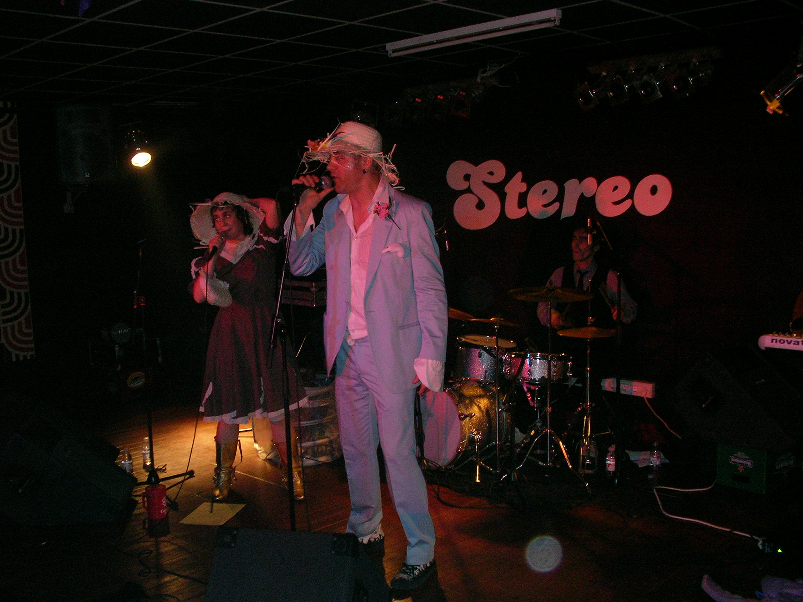 Lkan en concierto en la Sala Stereo de Murcia en 2008.